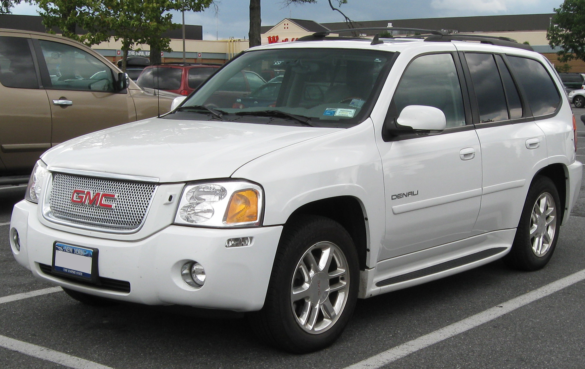 2005-2009 GMC Envoy photographed in Wheaton, Maryland, USA.